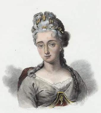 19th century copy of an engraving of the Dowager Princess of Espinoy